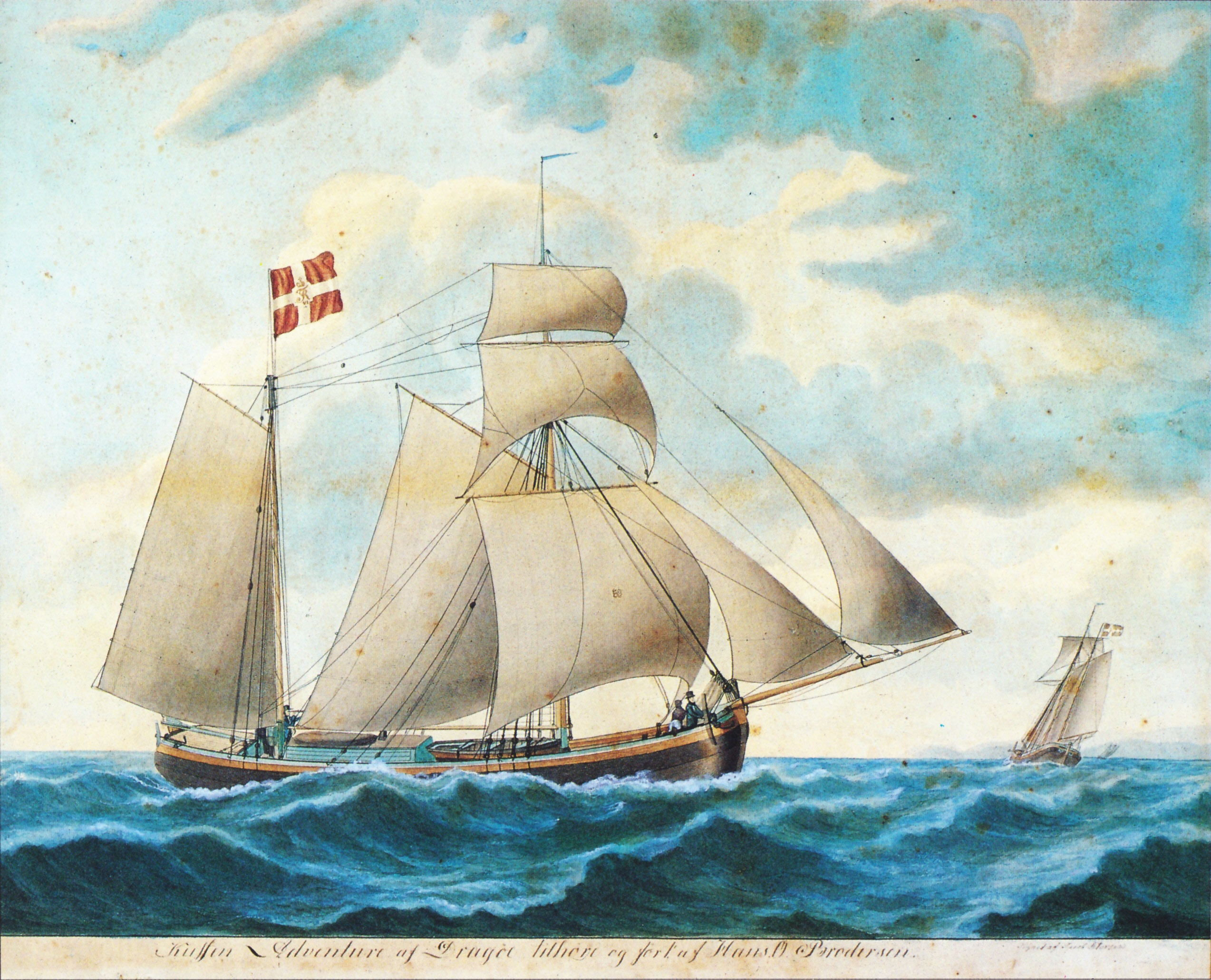 Two views of the koff Adventure of Dragør, painted in watercolour and ink by Jacob Petersen, size 46.7 x 56.6 cm. Source, Hanne Poulsen, Danske Skibsportrætmalere. Details on the shup Danish Maritime Museum Native nameM/S Museet for SøfartLocationHelsingør, DenmarkCoordinates56° 02′ 20.29″ N, 12° 36′ 58.18″ E Established1914Web control : Q5219764 VIAF: 124161087 ISNI: 0000 0001 2106 8969 LCCN: n81119663 NLA: 35402300 GND: 1040988-9 WorldCat institution QS:P195,Q5219764